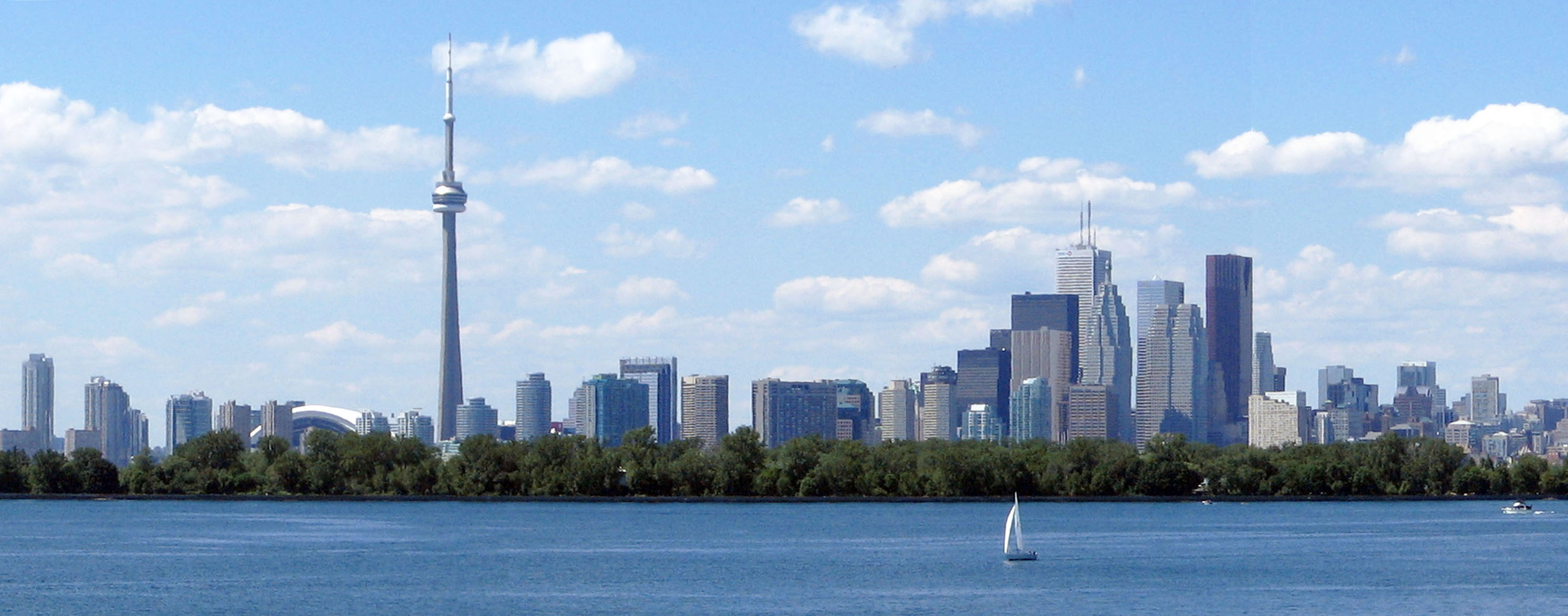 Cropped image of the Toronto skyline, seen from Tommy Thompson park